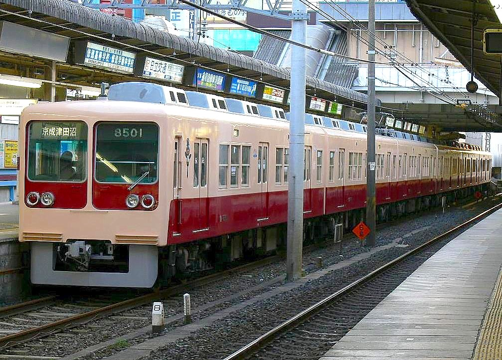 Shin-Keisei 8000 series EMU set 8501 in original livery at Matsudo Station